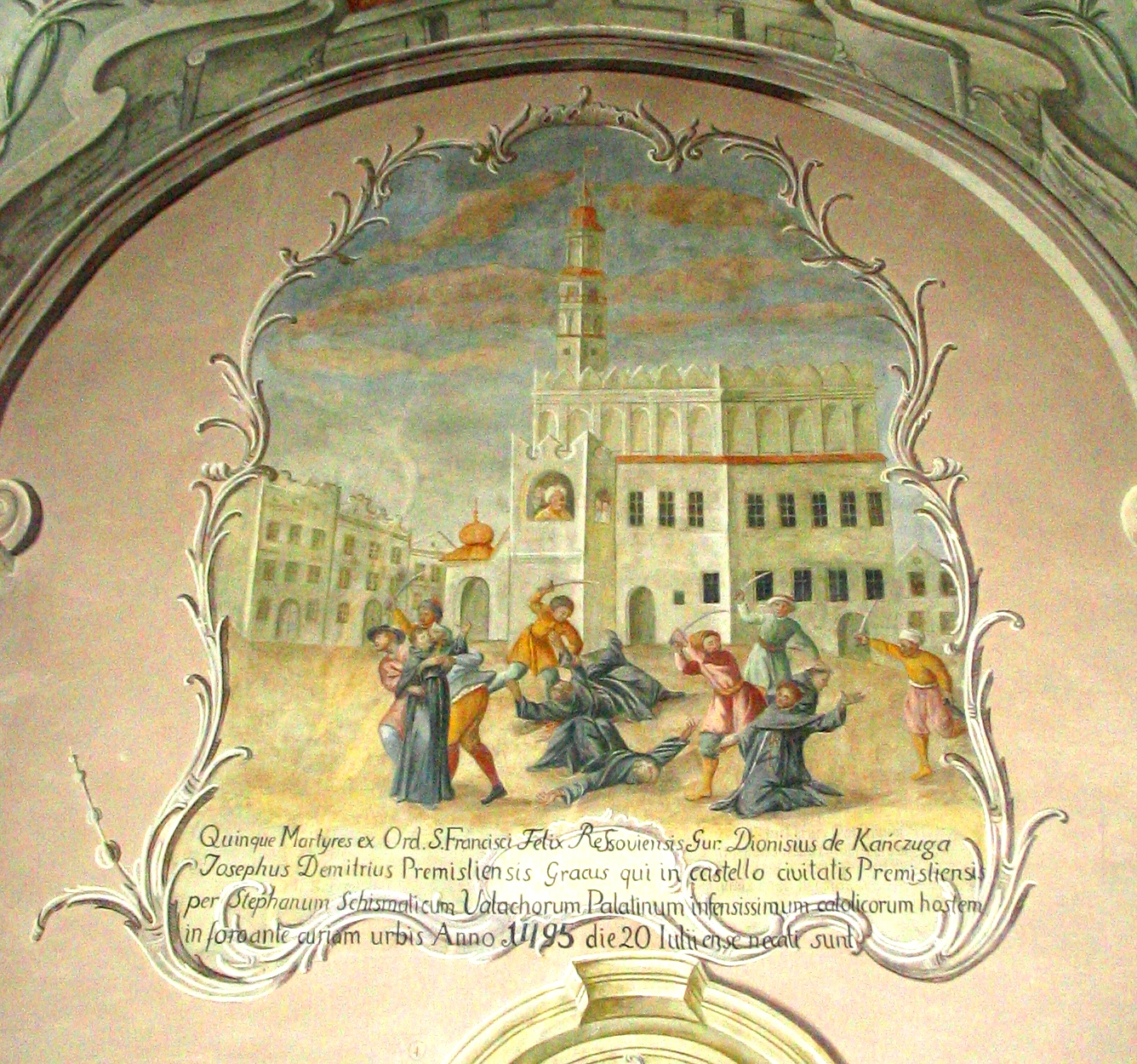 Franciscan Church in Przemyśl